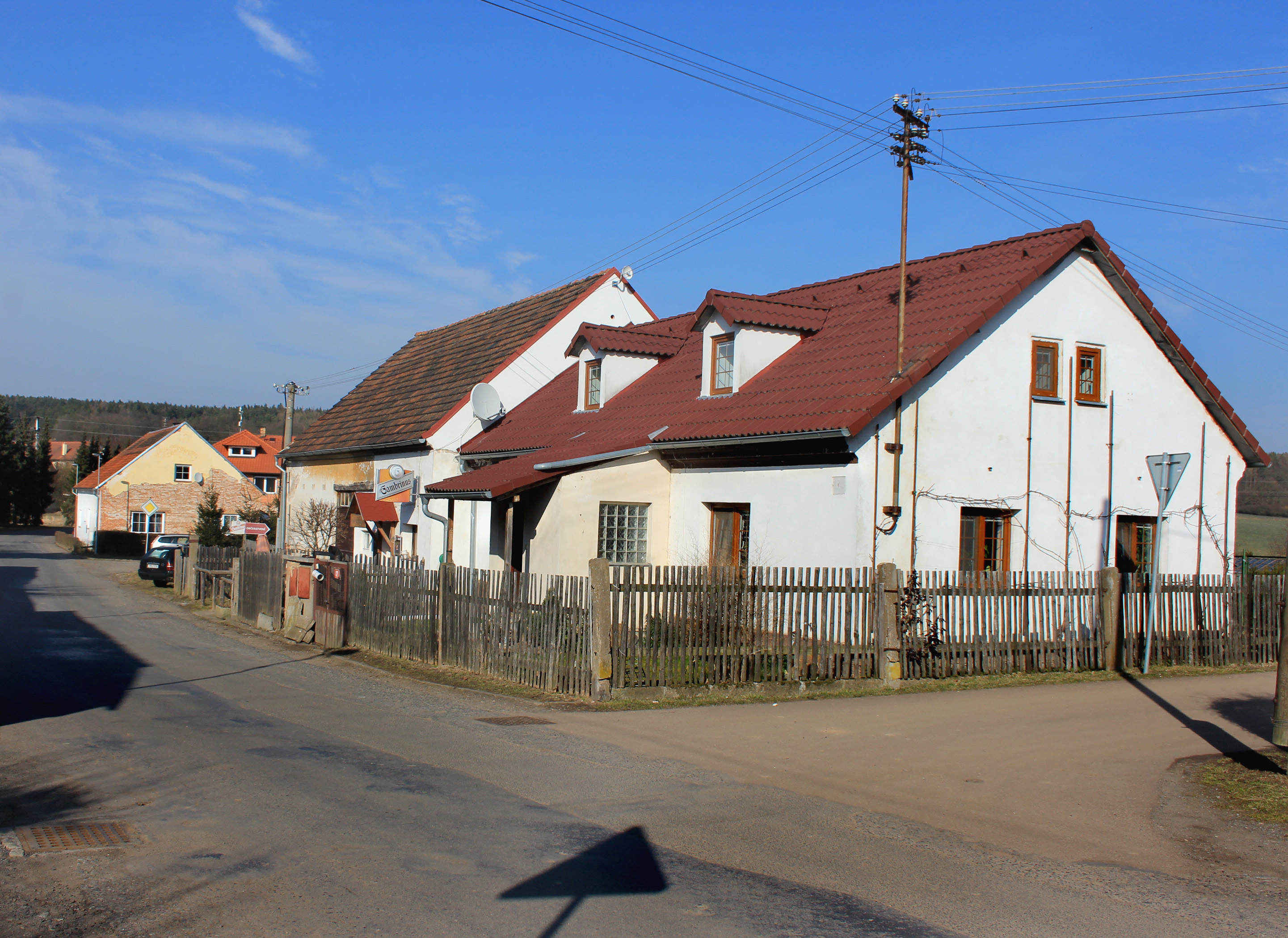 Restaurant in Rochlov, Czech Republic.